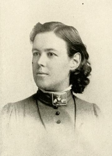 Photographic portrait of American physician Charlotte Johnson Baker (1855-1937). From American Women: Fifteen Hundred Biographies with Over 1,400 Portraits, Frances E. Willard and Mary A. Livermore, editors. Mast, Crowell & Kirkpatrick, 1897 (revised edition from 1893), vol. 1, p. 46